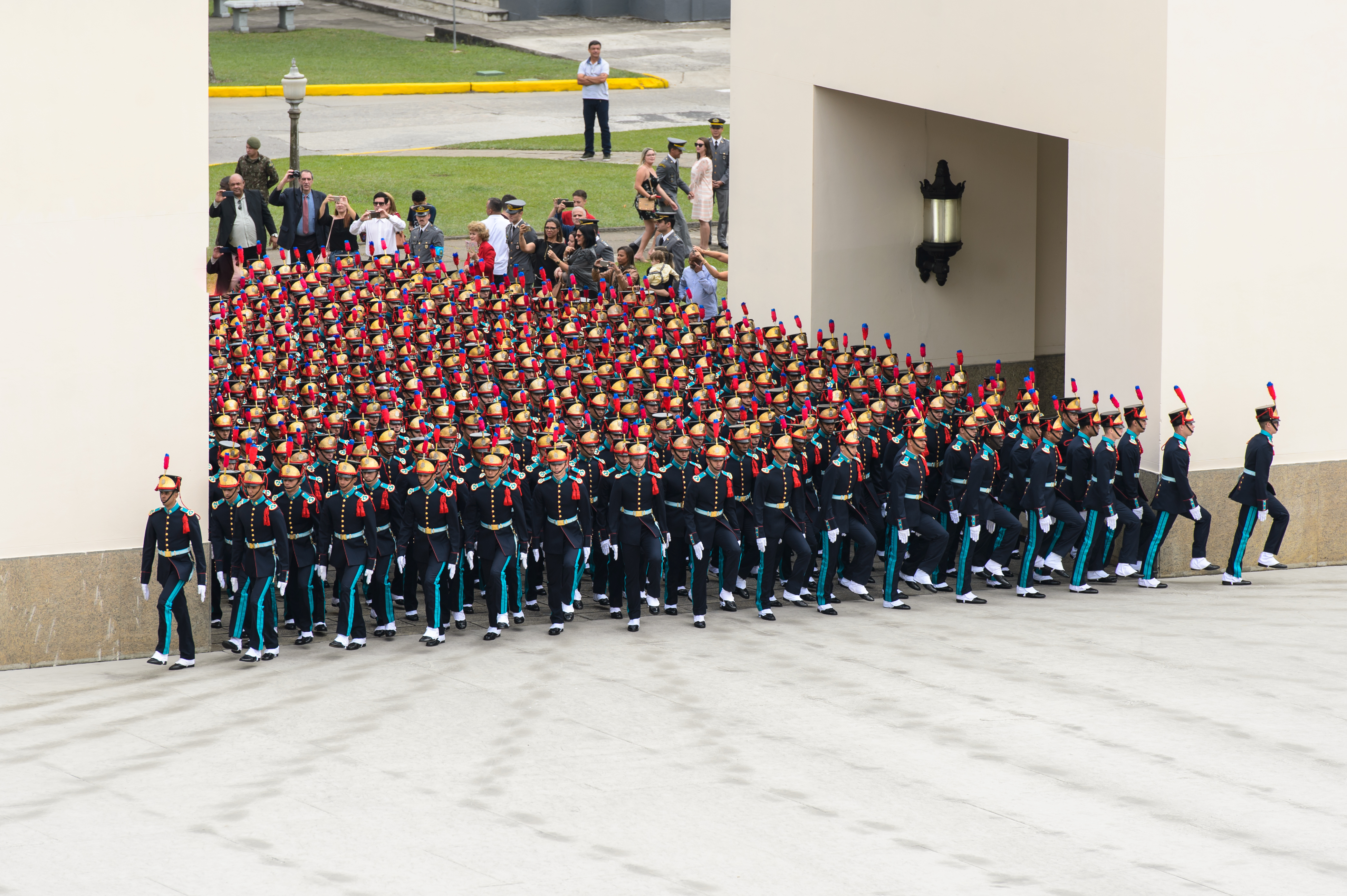 Foto:Alexandre Manfrim